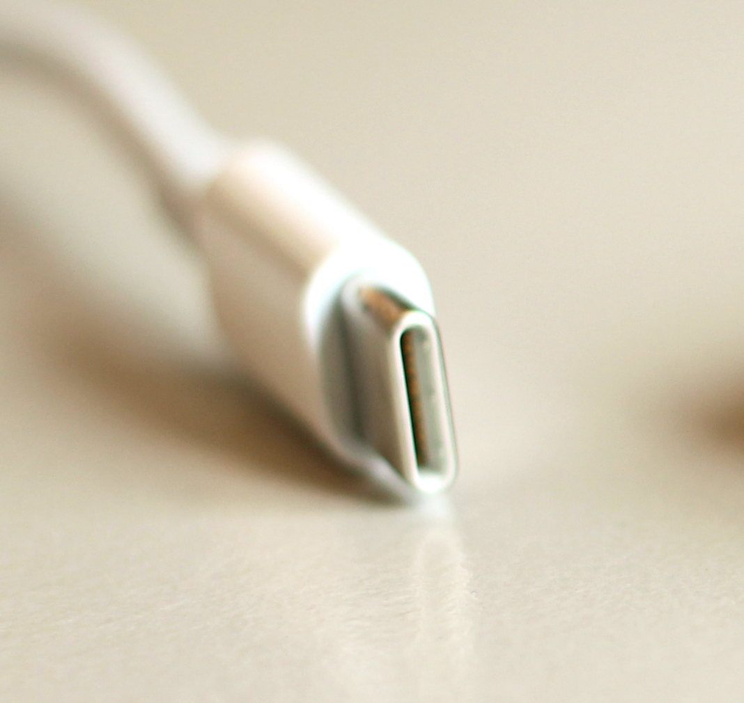 GN28K Aluminum USB C Hub for New MacBook Pro 2016 and 2017 (Gray).